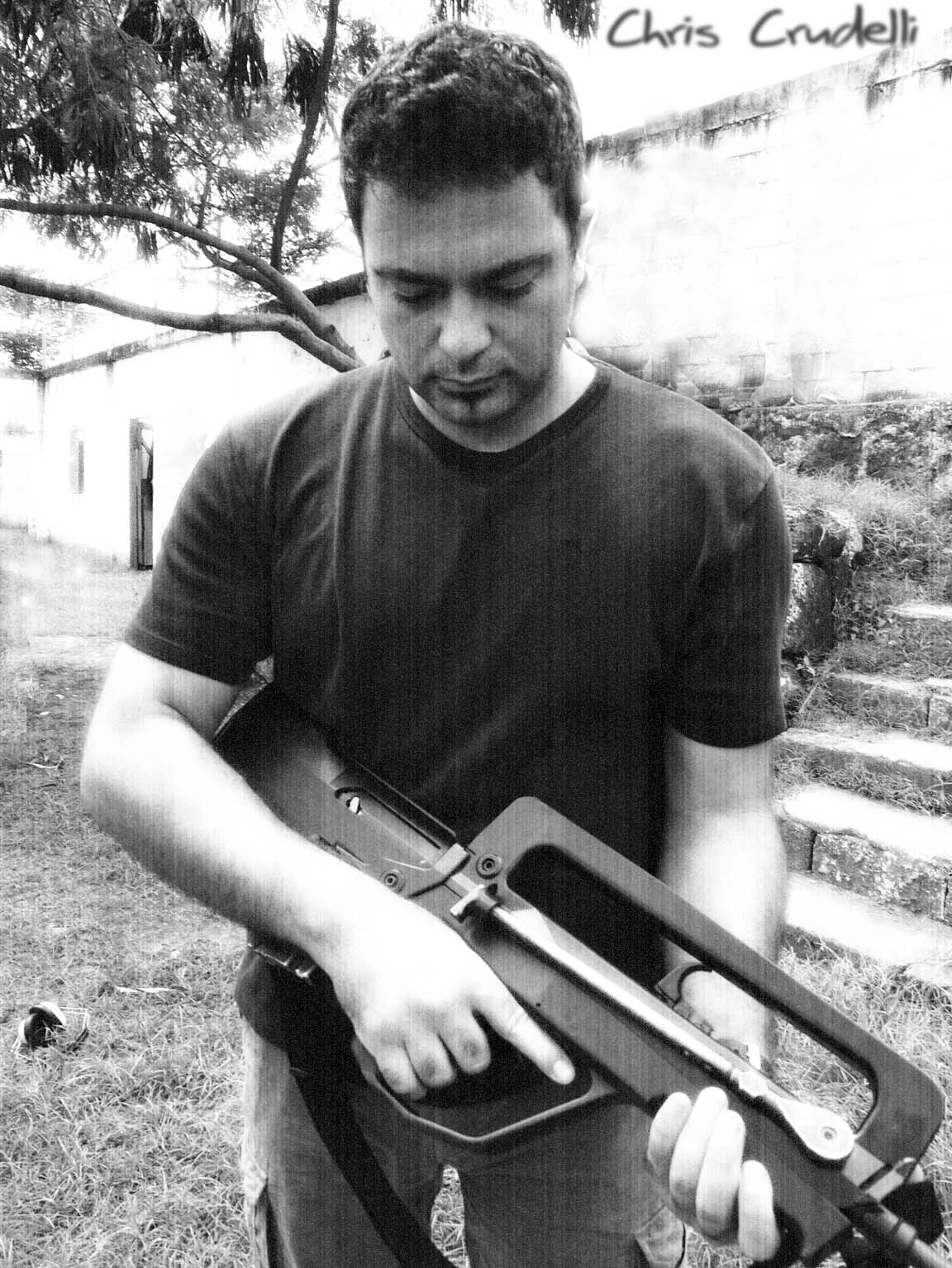 Chris Crudelli